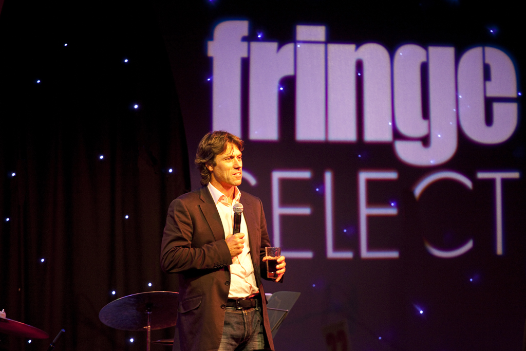 John Bishop performing at Fringe Select